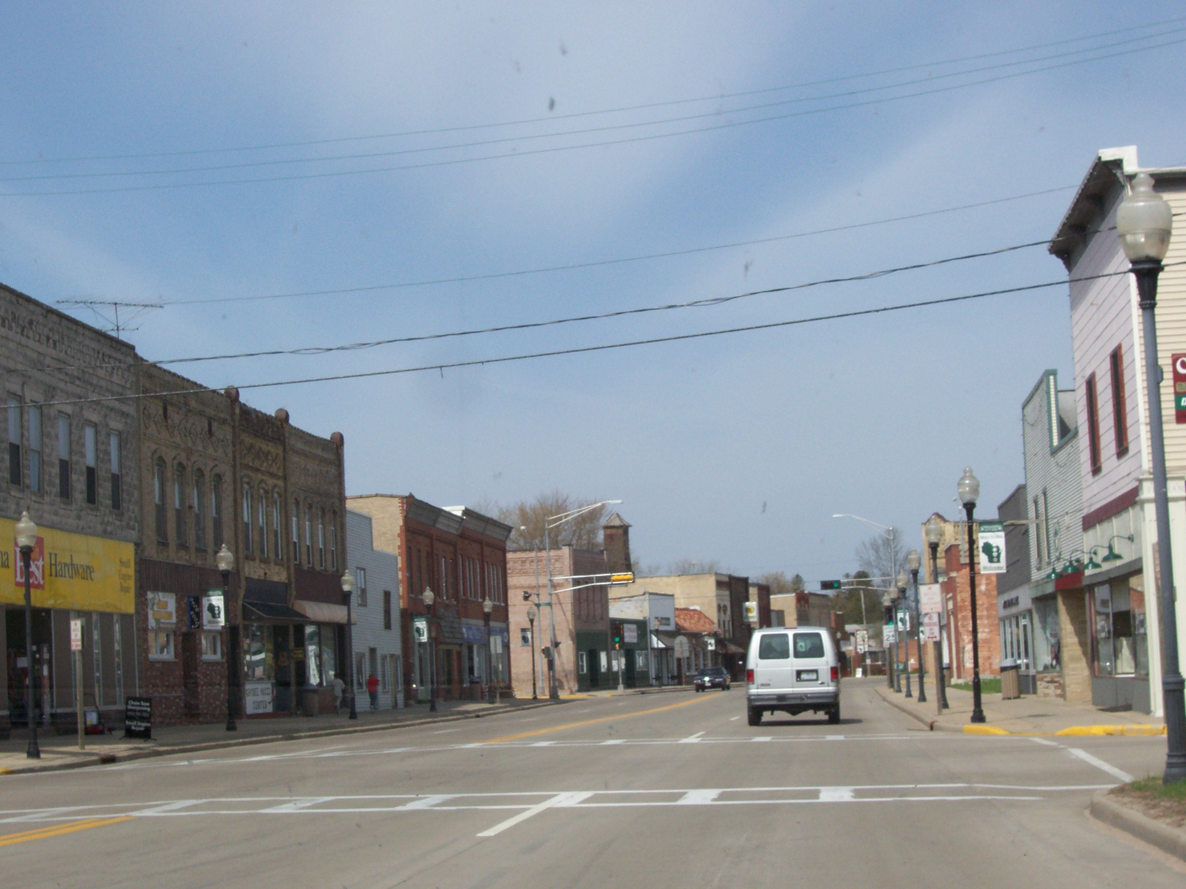 Looking west at downtown Wautoma, Wisconsin, USA on Wisconsin Highways 21.